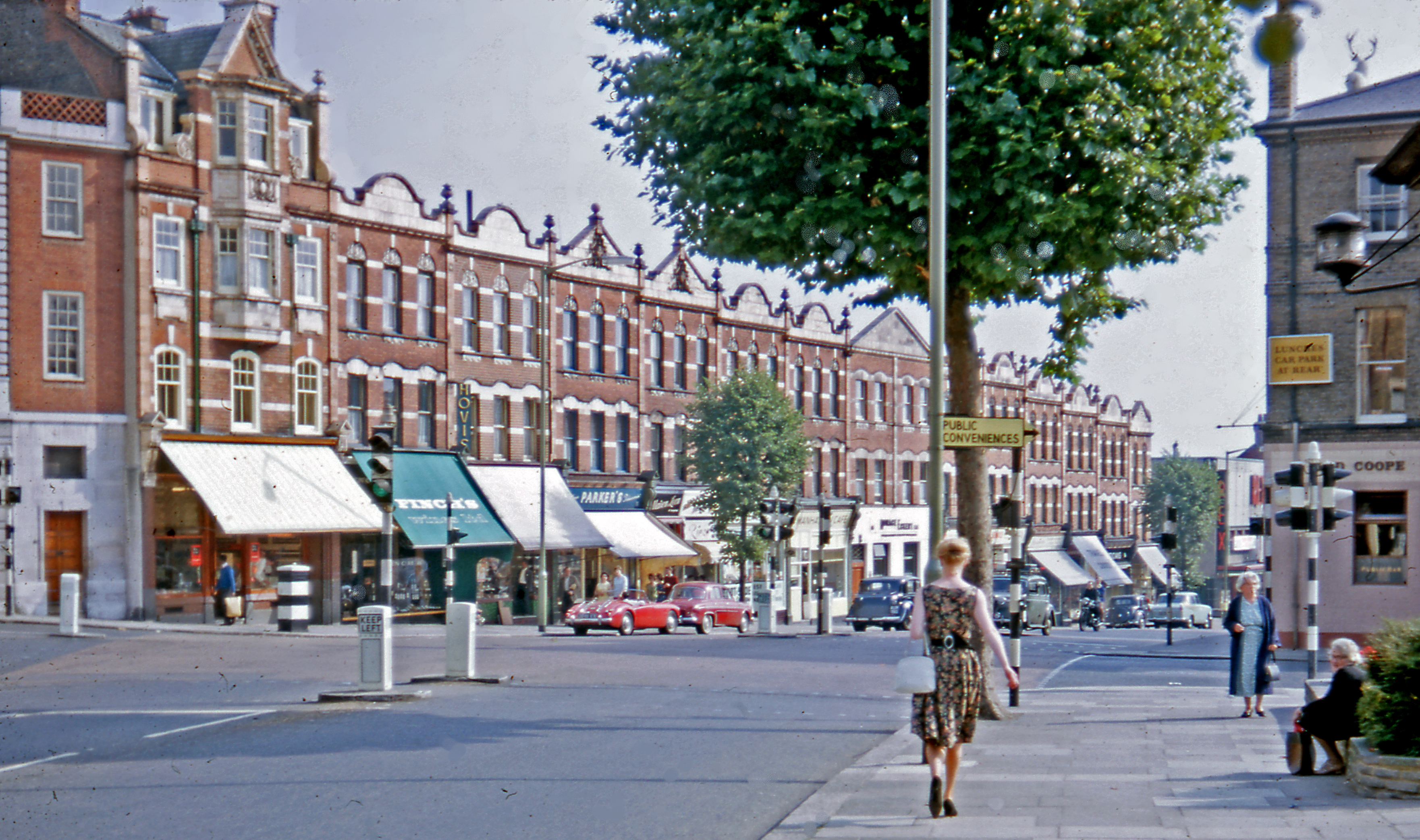 High Road, East Finchley, 1962 View SE, towards Highgate and London, at East End Road. Note the shop-blinds - also my wife striding ahead [wow!].